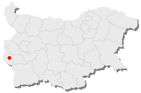 Map of Bulgaria, the red point is the position of Kyustendil.